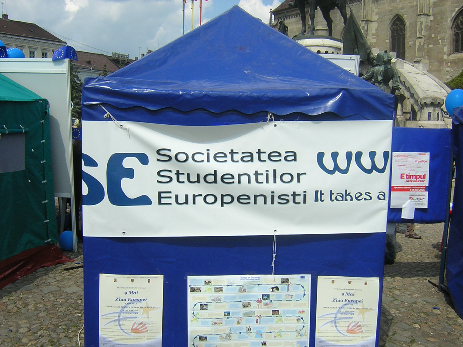 Photo of SSE Cluj-Napoca stall in Cluj, Romania.